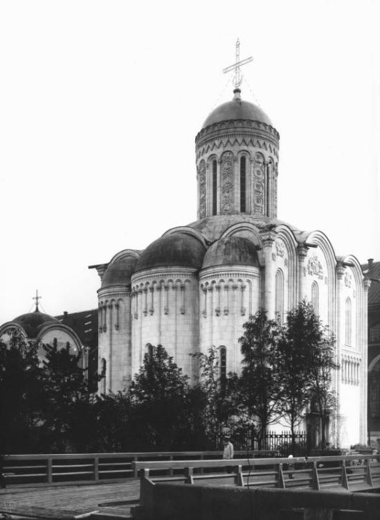 Christ the Saviour Church at the Angliiskaya Embankment in Saint Petersburg („on Waters“). The church was built in 1909-11 from public donations. It is designed in the style of 12th century Vladimir-Suzdal architecture (engineer S. S. Smirnov, to the plans of architect M. M. Peretyatkovich). In 1932, the church was closed and demolished. Photo taken by Karl Bulla as 1911.